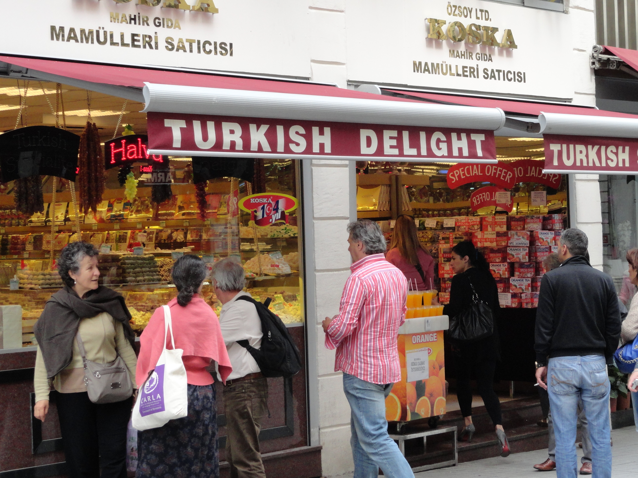 If you are visiting Turkey and especially Istanbul, it is a must to visit a Turkish Delight Shop. You should try as much different kind as possible of Turkish candies. By the founder of